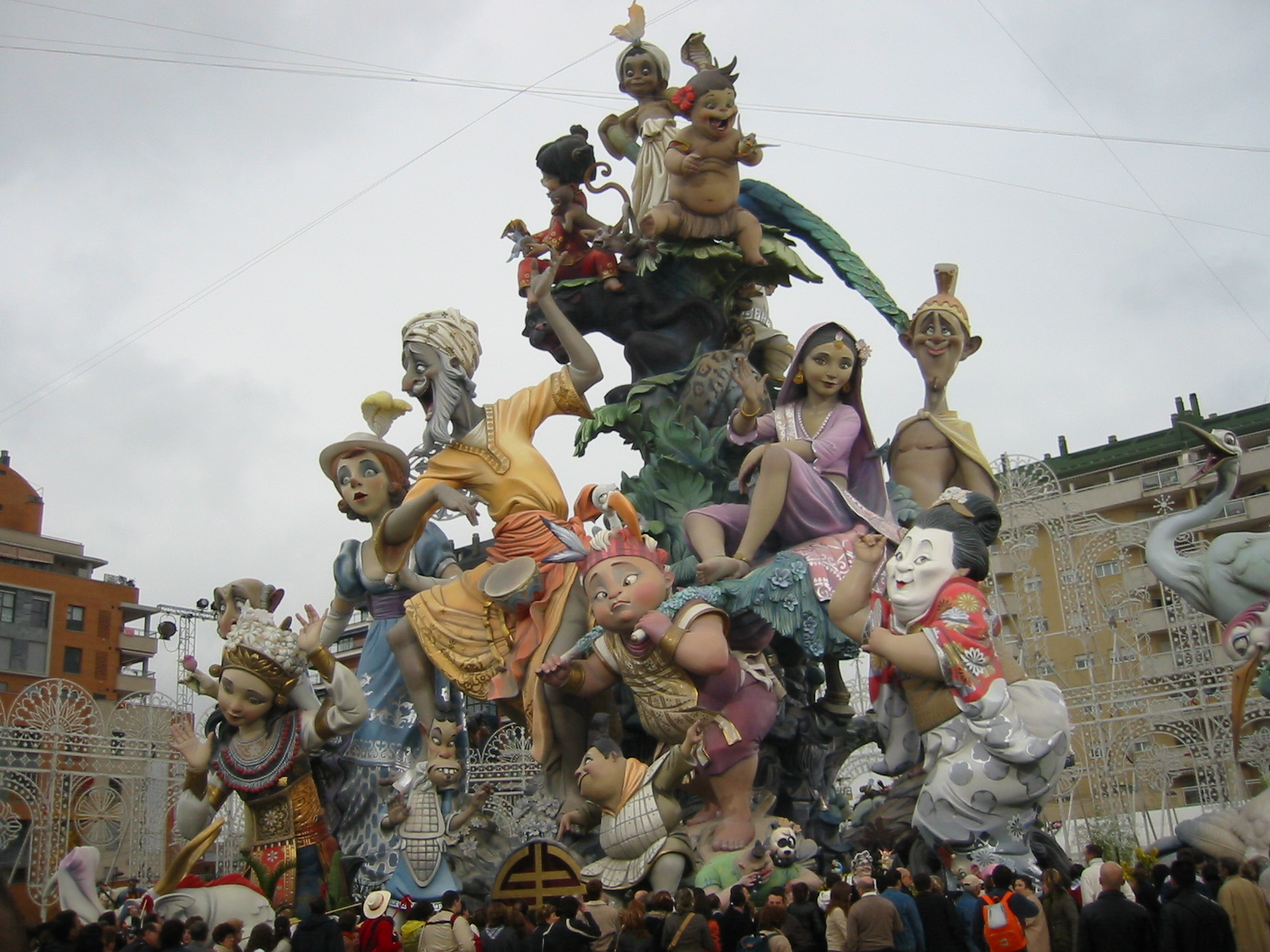 Winner of the year. Incredible the size of the Falla and its details.